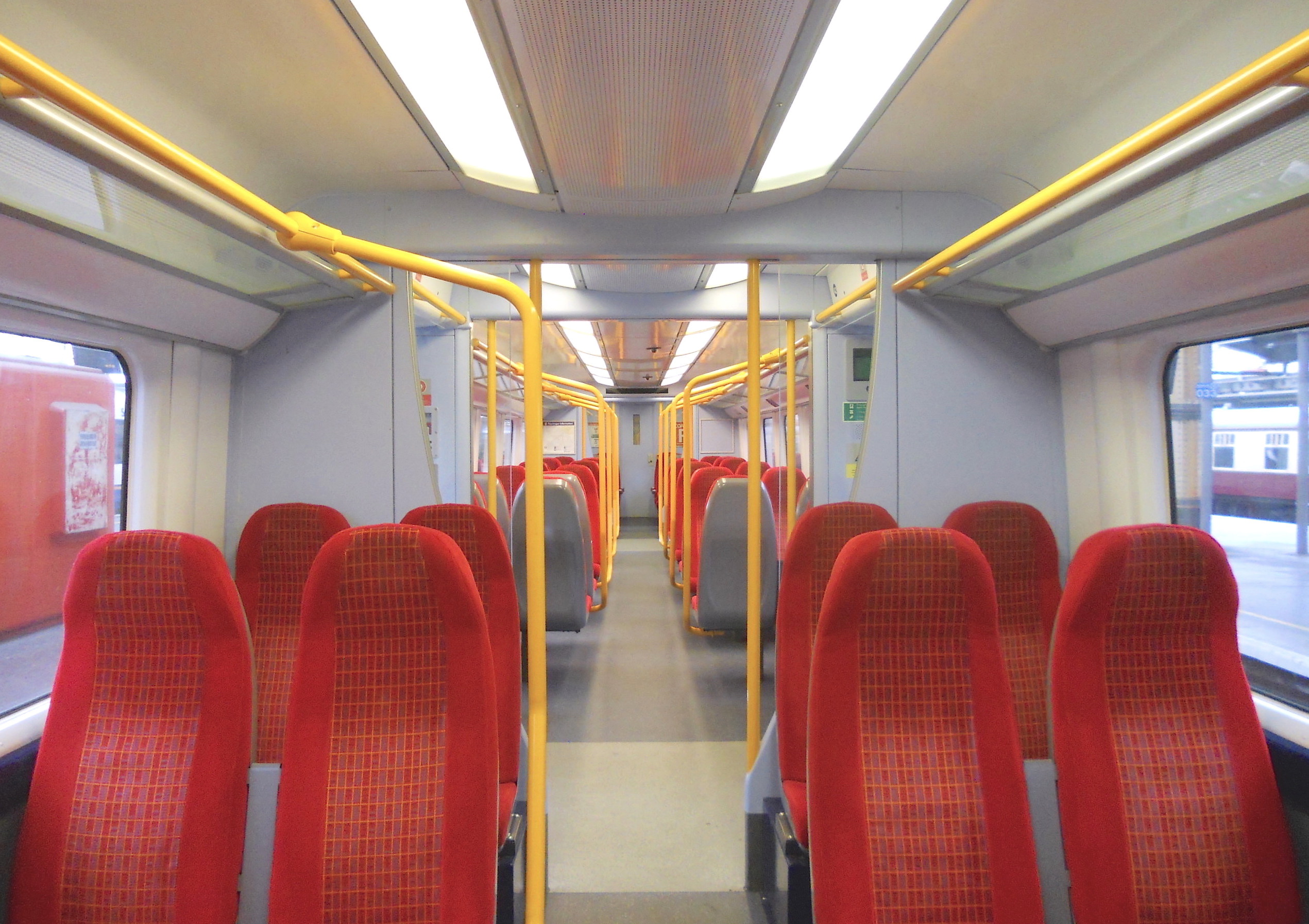 The interior of the refurbished DMSO vehicle from a Class 458/5